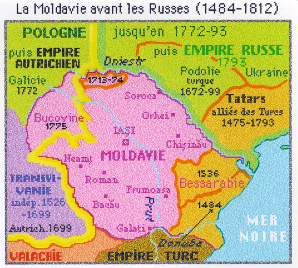 Map of Moldova/Moldavia 1484-1812